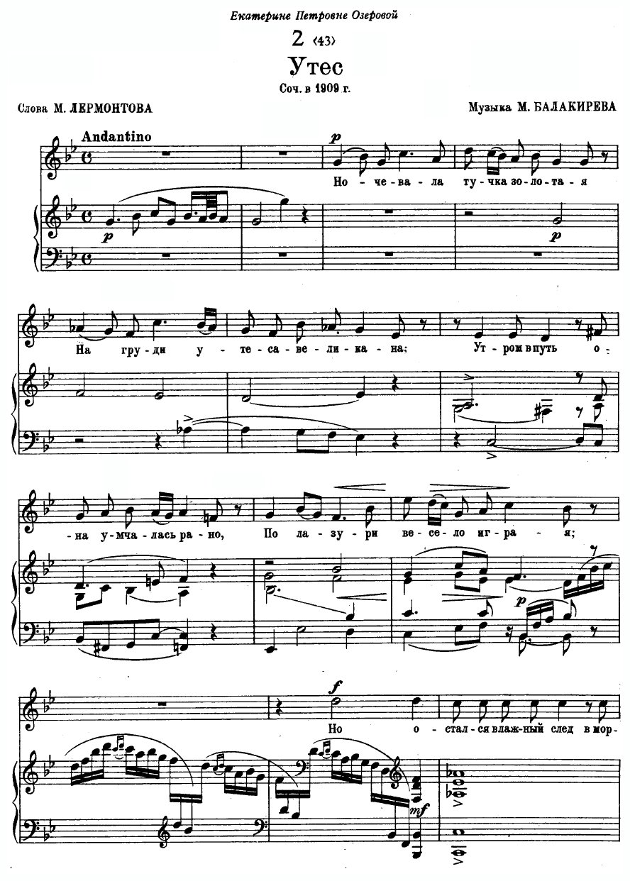 Romance Utes (Утёс, 1909) to the poem of Mikhail Lermontov page 1